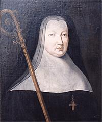 Laure-Madeleine Cadot de Sébeville, abbess of the Abbaye de Montivilliers from 1682 to 1745